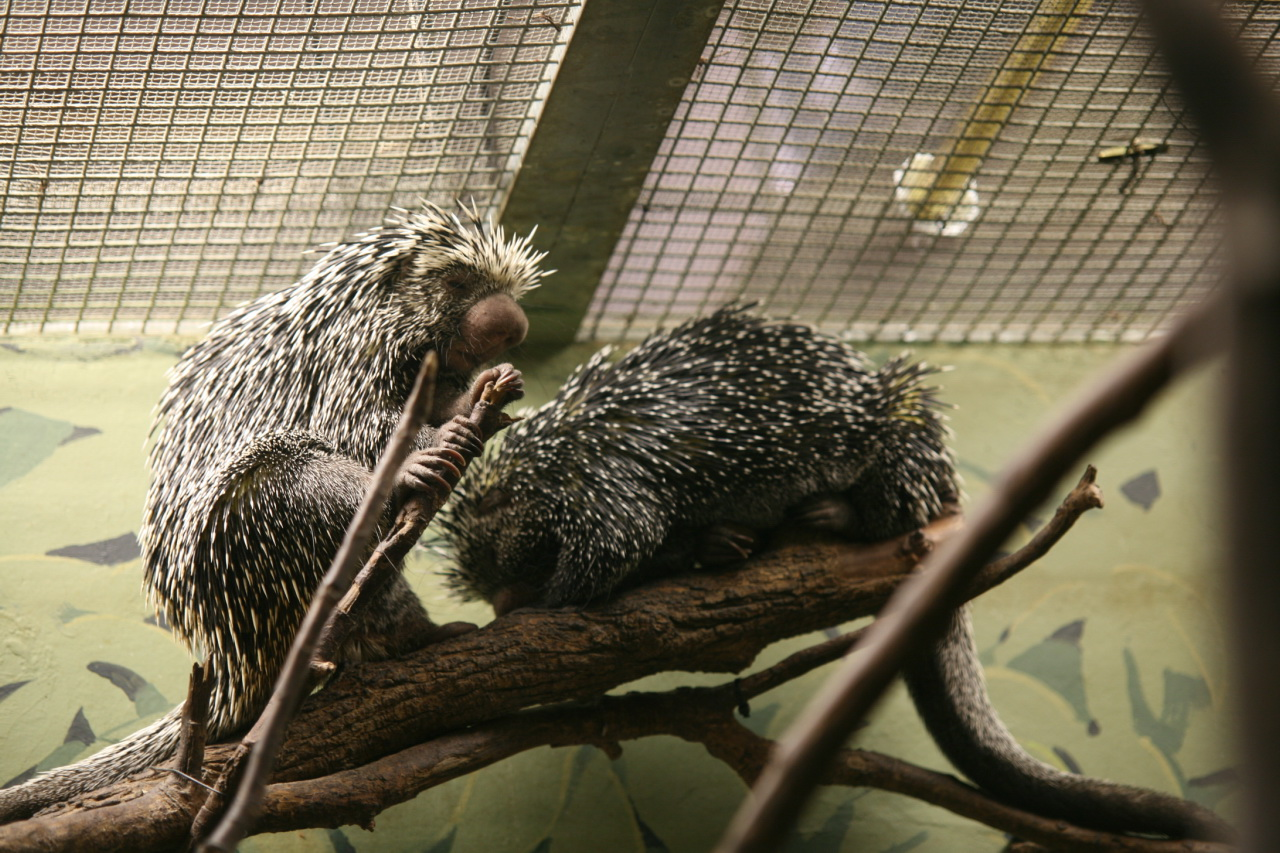 "Coendou prehensilis". With sharp spines, a big, round nose, and a tail they can hang from, prehensile-tailed porcupines are nocturnal vegetarian rodents. They have short, thick spines, and their body color runs from yellowish to orange-rust to brown to almost black. They weigh 4 to 11 pounds (2 to 5 kg). Their bodies are 300 to 600 millimeters long, and their tails are almost as long as their bodies, adding another 330 to 485 millimeters. Like howler monkeys, these porcupines use their prehensile tails for grasping and hanging. These tails have no spines, and the upper side near the end has a callus pad. These Porcupines are found in forests in Venezuela, Guiana, Brazil, Bolivia, Paraguay, Trinidad, and some extreme northern sections of Argentina.